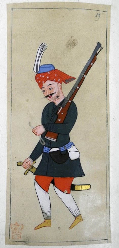 Military pictures from Hans Sloan's 'The Habits of the Grand Signor's Court', c.1620